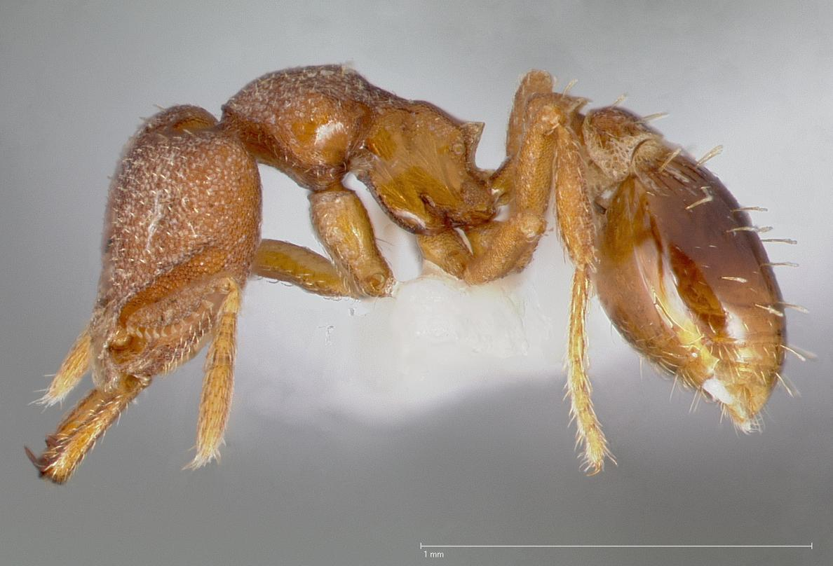 Profile view of ant Strumigenys abdera specimen casent0005465.